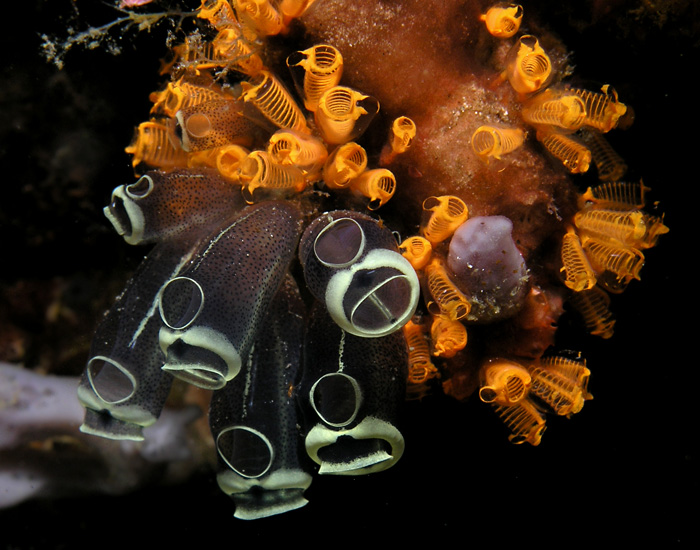 Two species of colonial tunicates. Clavelina robusta black and white. Pycnoclavella flava orange.